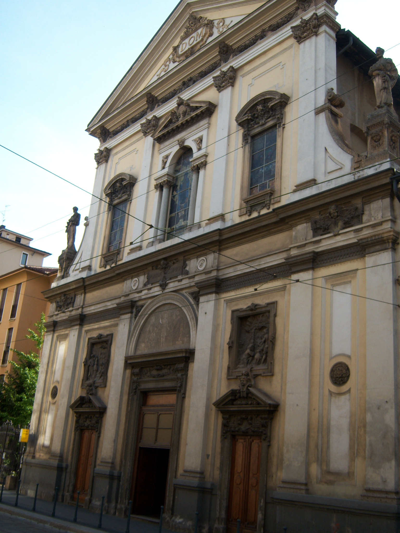 The facade of Santa Maria al Paradiso church in Milan, Italy, buil tin 1896 by Ernesto Pirovano (1866-1934).